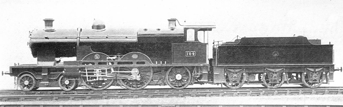 De Glehn Compound, built by the Société Alsacienne for the Great Western Railway GWR 104 Alliance, a de Glehn compound See GWR 102 La France